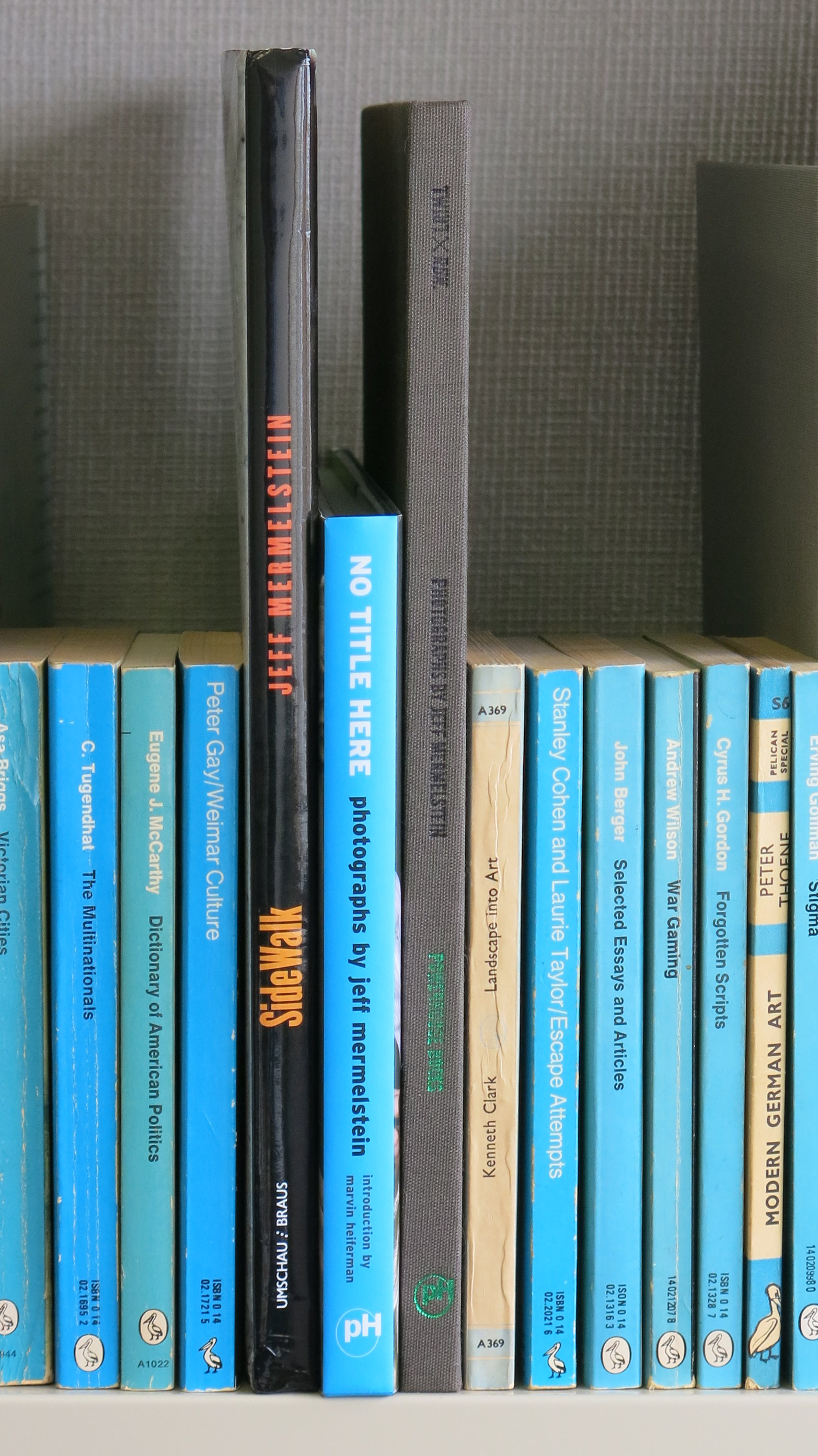 Three photobooks by Jeff Mermelstein, surrounded by (irrelevant) Pelicans